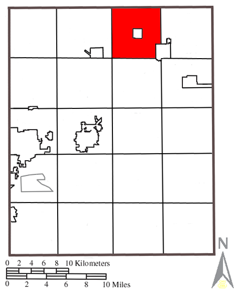 Map of Portage County, Ohio with Hiram Township highlighted.